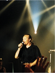 Alan_Stivell at a concert in Lorient, Brittany